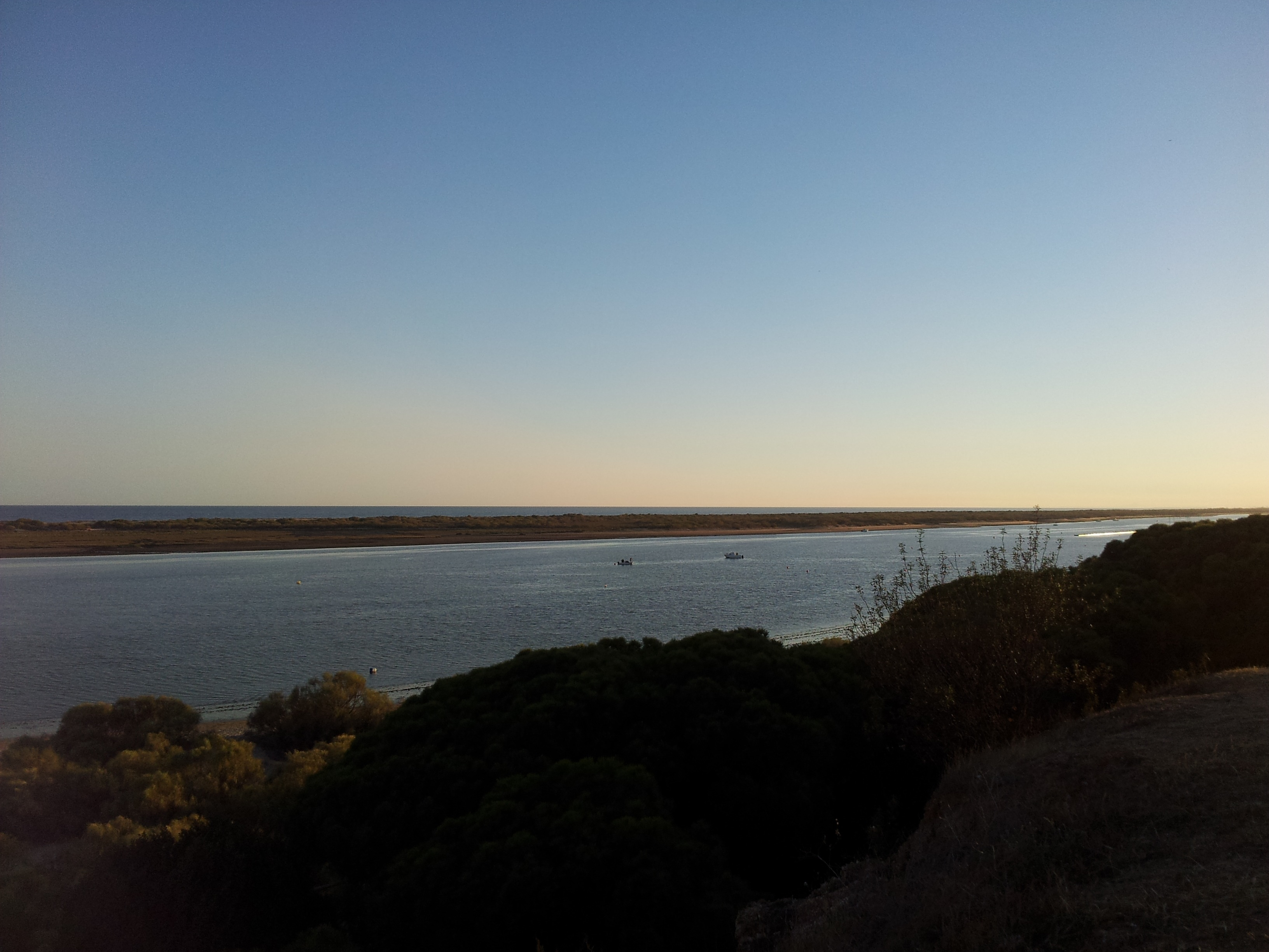 El Rompido Arrow y a natural barrier that defines the Rio Piedras estuary with calm waters.